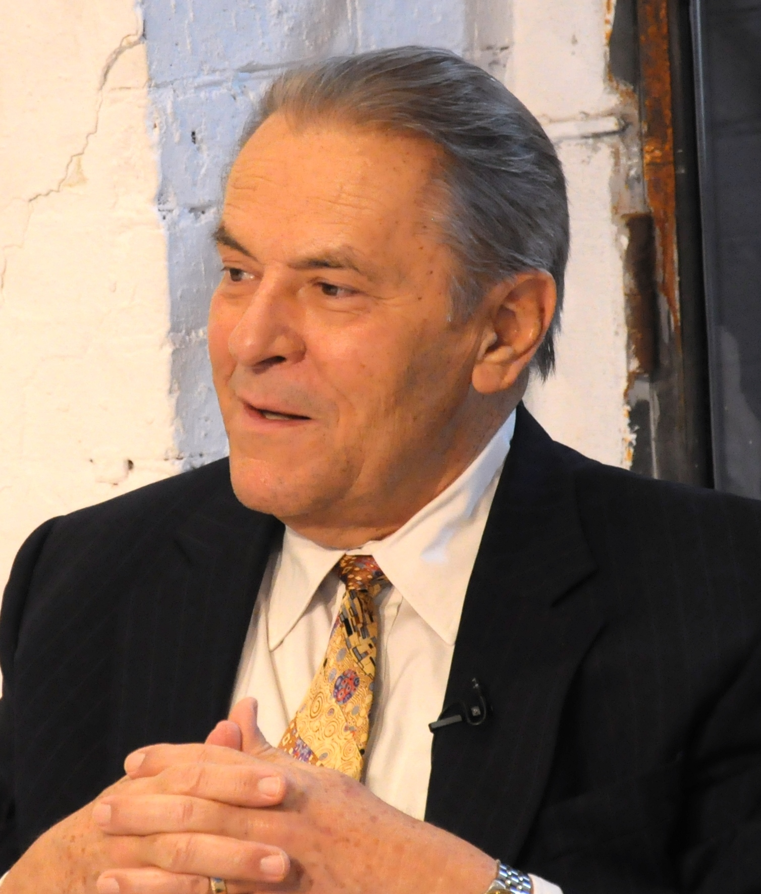 Stanislav Grof, psychologist and psychiatrist